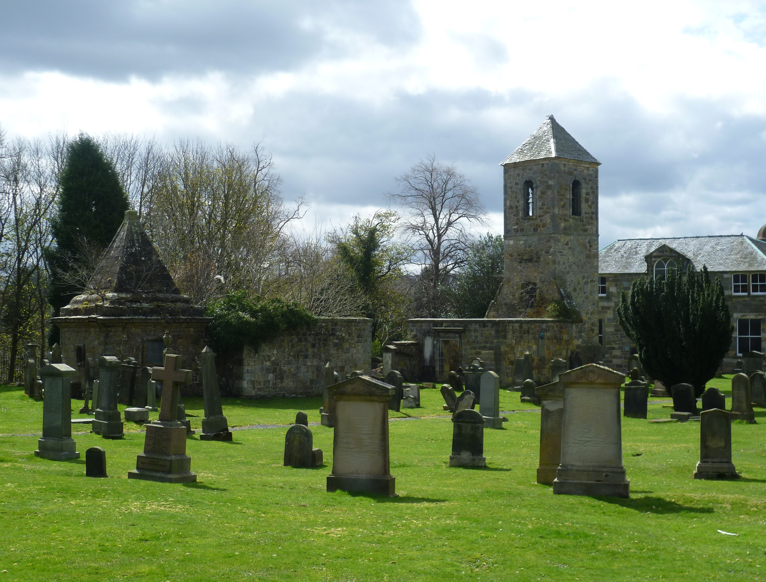 Ruin of St. Mungo's Parish Church, Penicuik